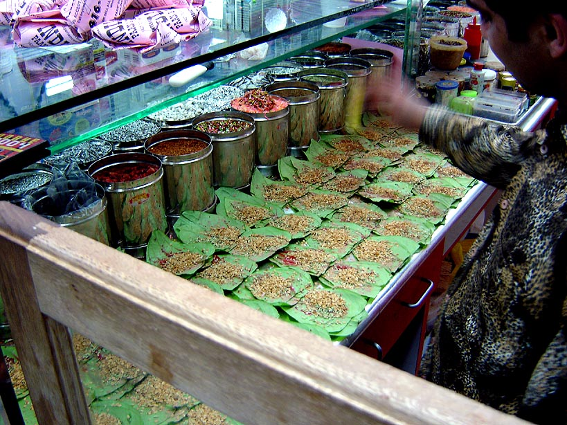 Originally uploaded to en wikipedia by Siqbal. Shop keeper making Paan.